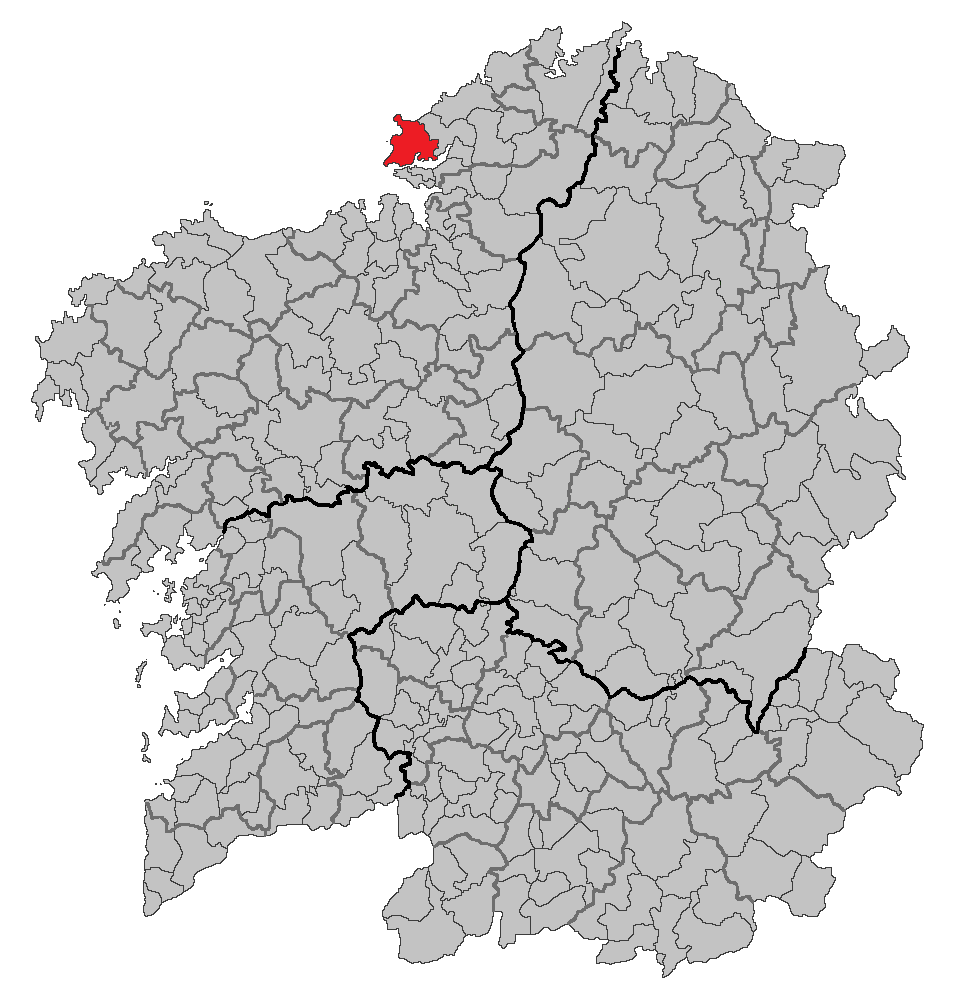 Location map of Ferrol, A Coruña, Galicia